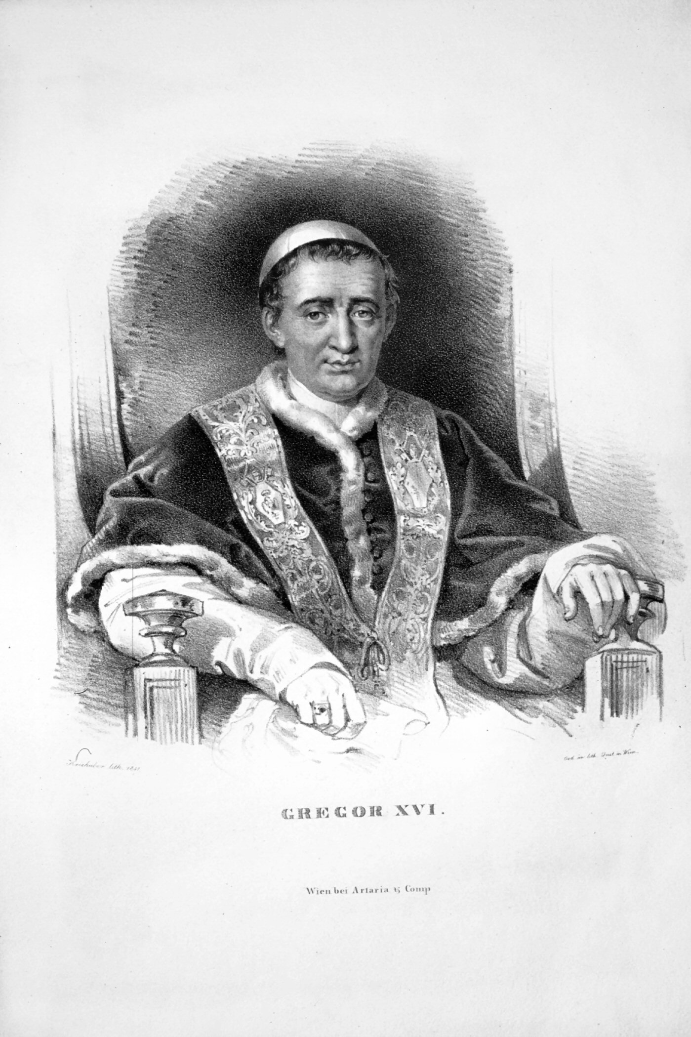 Portrait of Gregorius XVI (1765-1846), pope